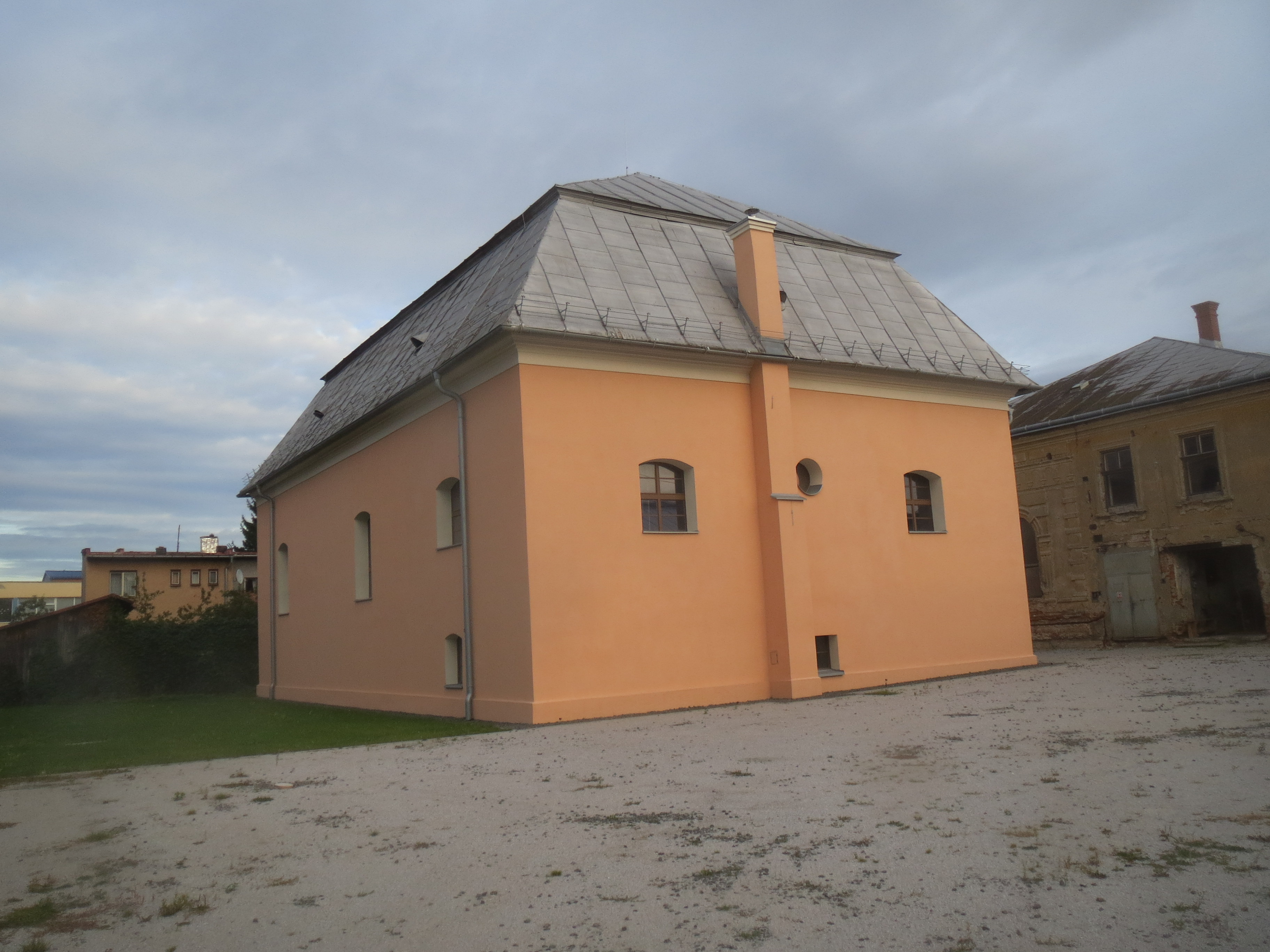 Old Synagogue (Bardejov 2019)